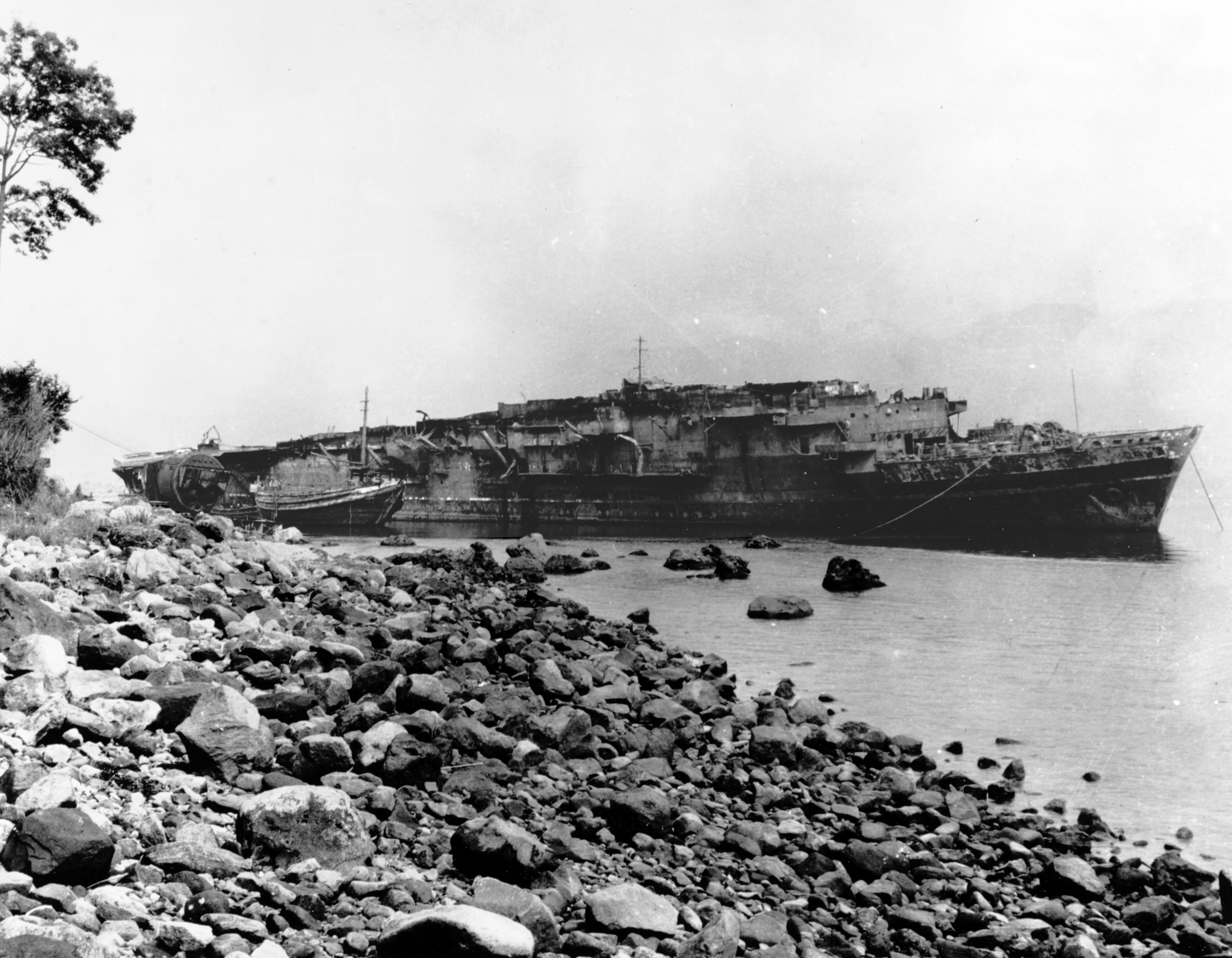 The former Imperial Japanese Navy escort carrier Kaiyō beached in Beppu Bay, Kyushu, Japan, while being scrapped, circa in 1946-1947.